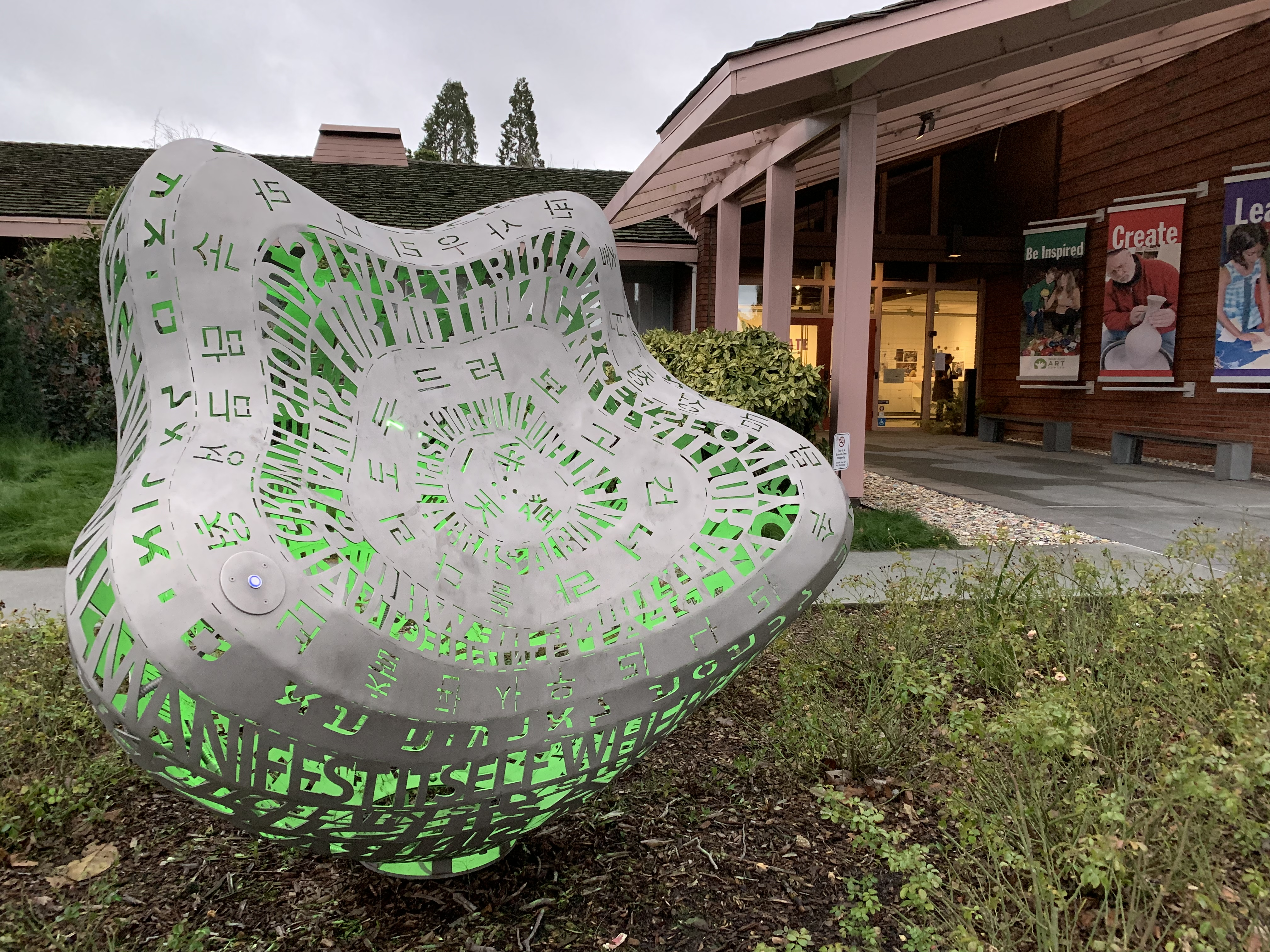 The Palo Alto Art Center entrance in Palo Alto, California; featuring a typographic sculpture